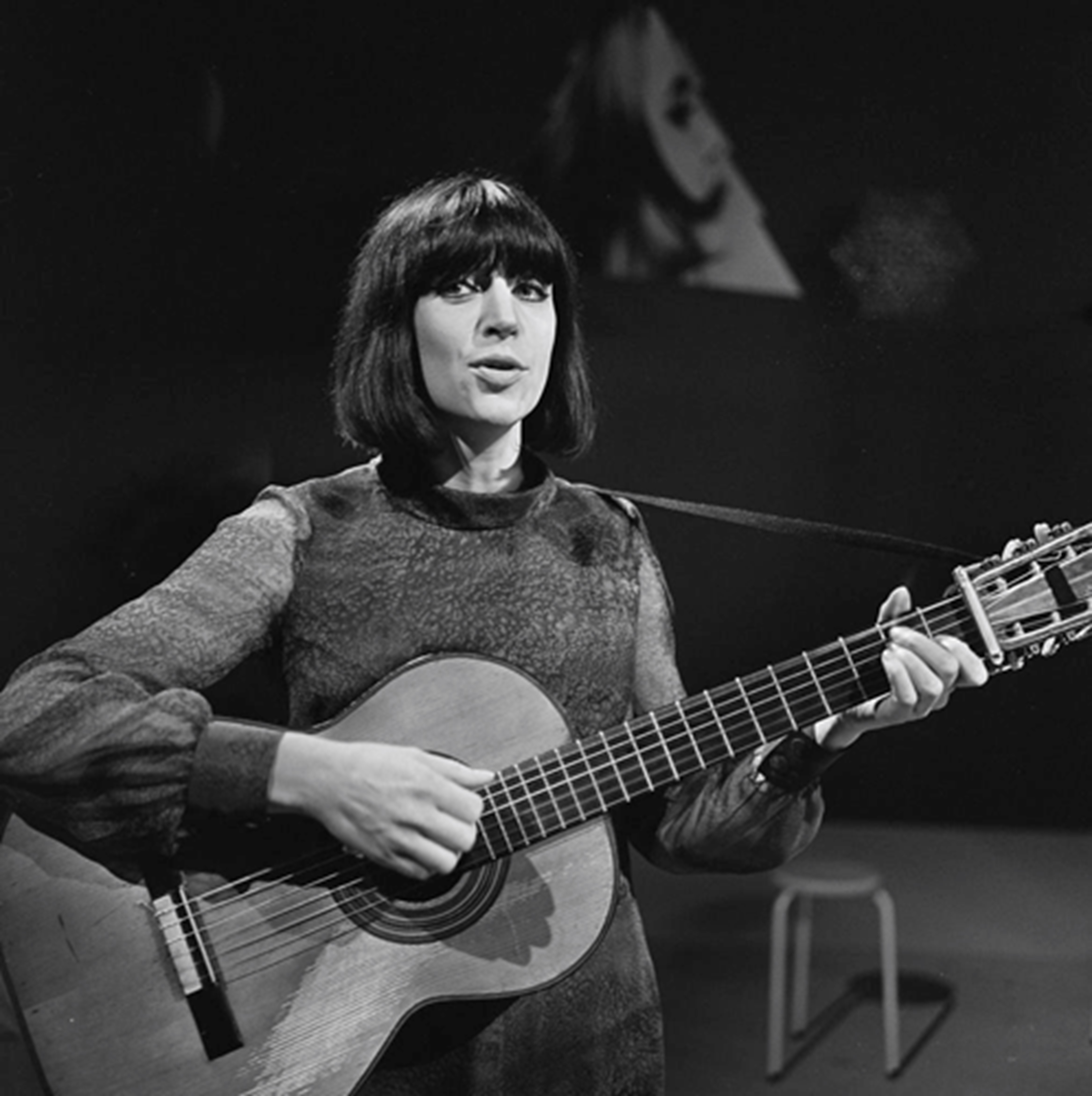 Anne Sylvestre singing "Noel nouvelet" en "La coeur sur la bras" in the Dutch TV programme Fanclub, 11 Dec. 1965 (aired on 17 Dec.)